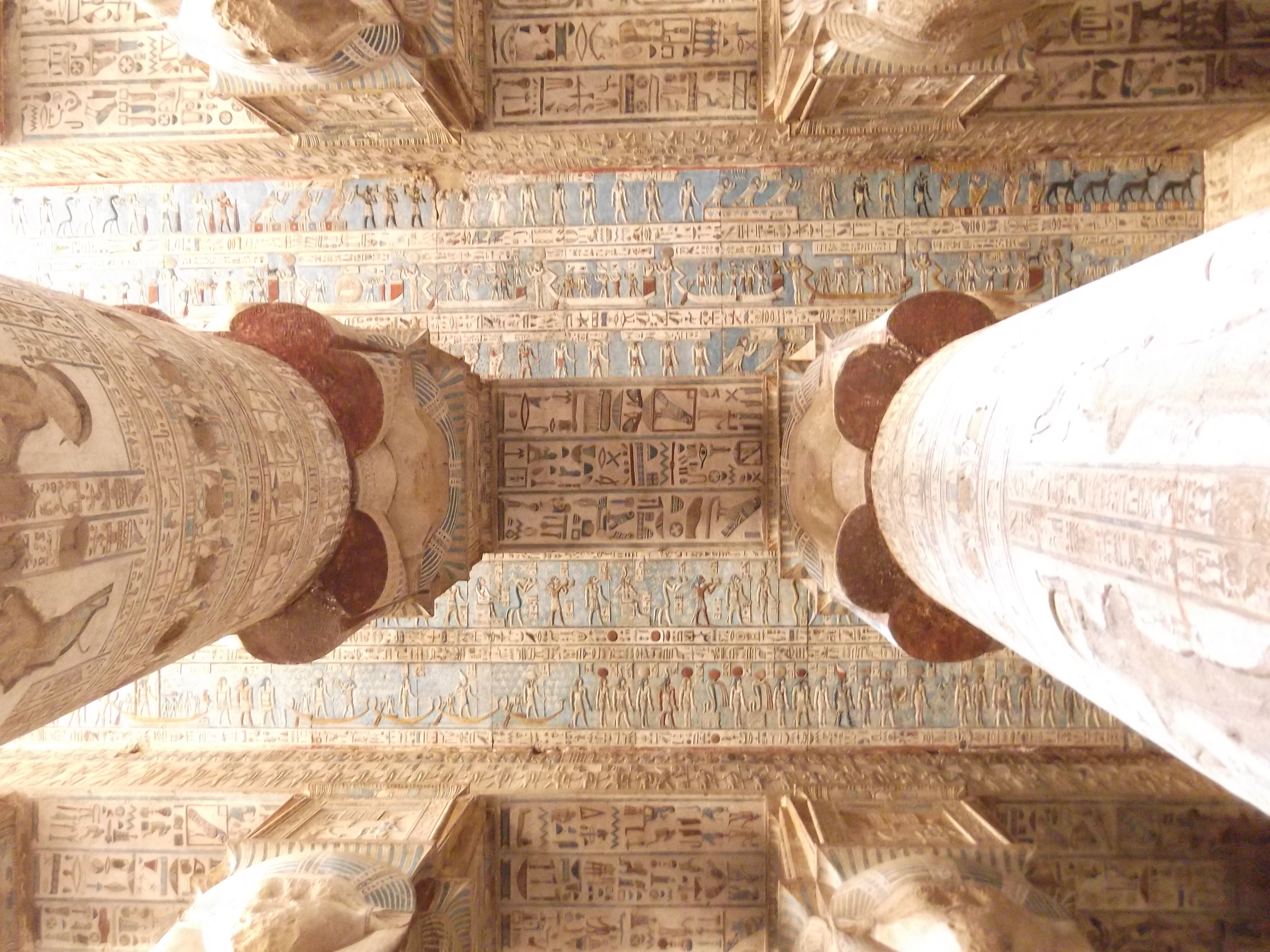 The recently cleaned ceiling of the Temple of Hathor at Dendera Temple complex